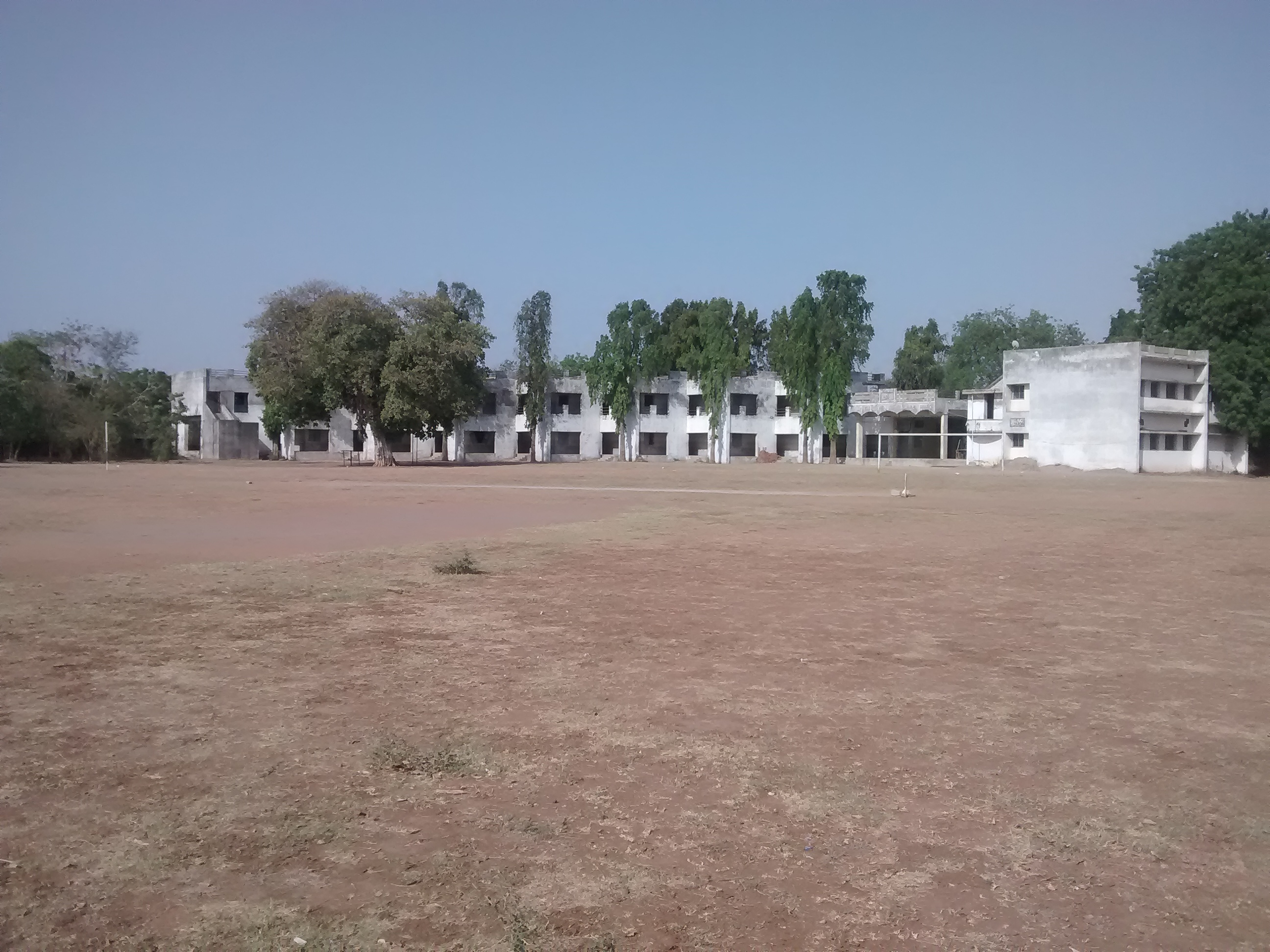 Shri C V Gandhi HighSchool Ranasan